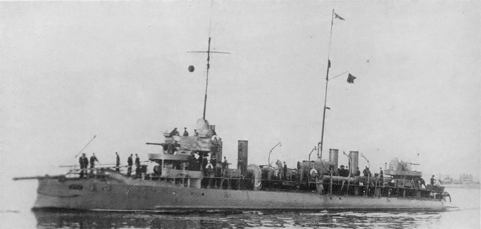 Imperial Russian destroyer Metkiy.